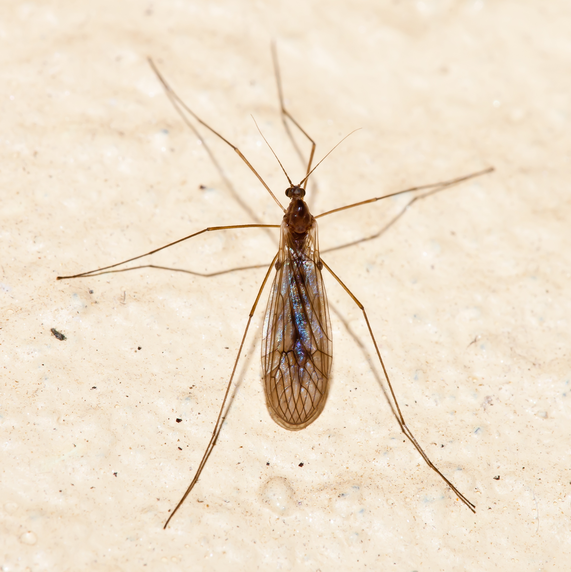 Trichocera annulata in Vilarromarís, Oroso, Galicia (Spain)